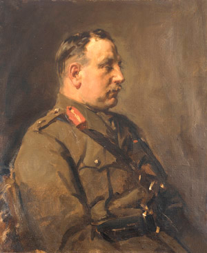 Portrait of Charles Rosenthal by John Longstaff